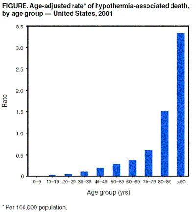 The risk of hypothermia by age group.